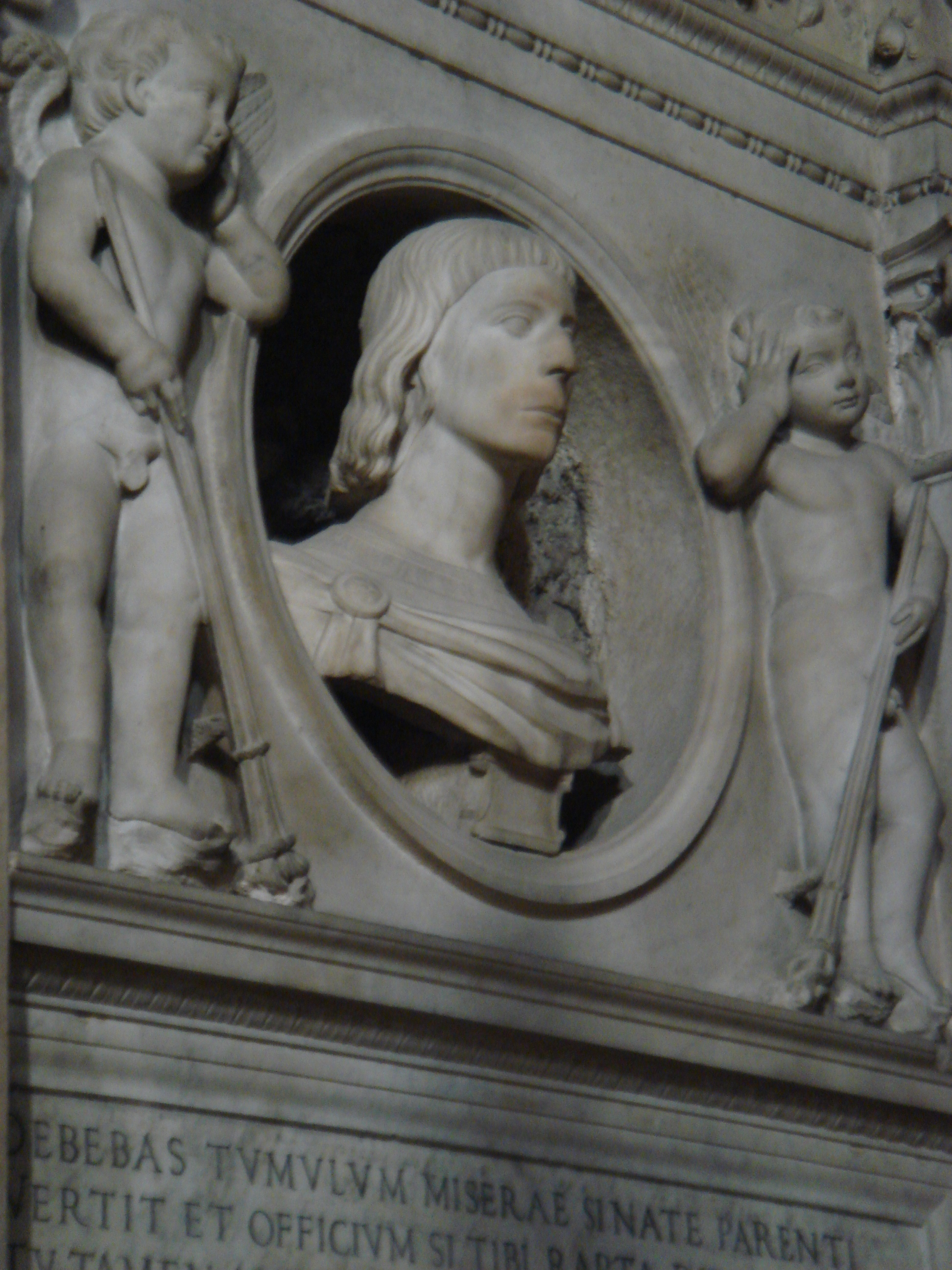 The tomb of Giovanni Battista Milizio de' Cavalieri in Santa Maria in Aracoeli in Rome. Note that the tomb and this portrait bust are not that of the composer Emilio de' Cavalieri. Emilio de' Cavalieri is buried in the chapel, but the tomb itself disappeared during later renovations. In March 2002 a replacement plaque commemorating his burial was placed in the chapel. See Kirkendale, Walter (2003). "The Myth of the "Birth of Opera" in the Florentine Camerata Debunked by Emilio de' Cavalieri: A Commemorative Lecture". The Opera Quarterly, Vol. 19, No. 4, pp. 631-643